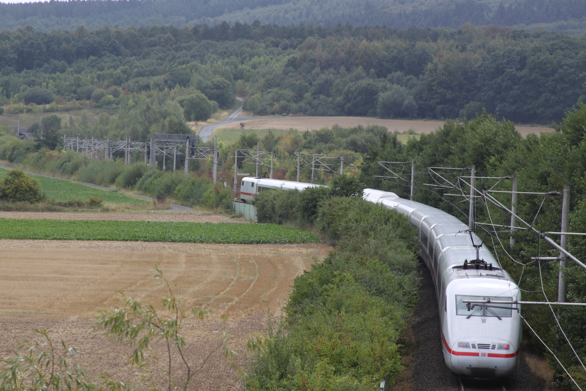 An ICE 1 travelling on Hildesheimer Schleife, shortly before joining the Hannover-Wurzburg high-speed railway line, headed south.